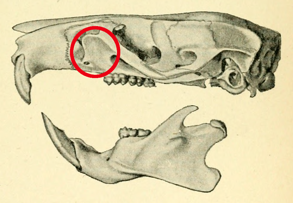 A skull of the Maclear's Rat (Rattus macleari) indicating the zygomatic plate with a red circle.